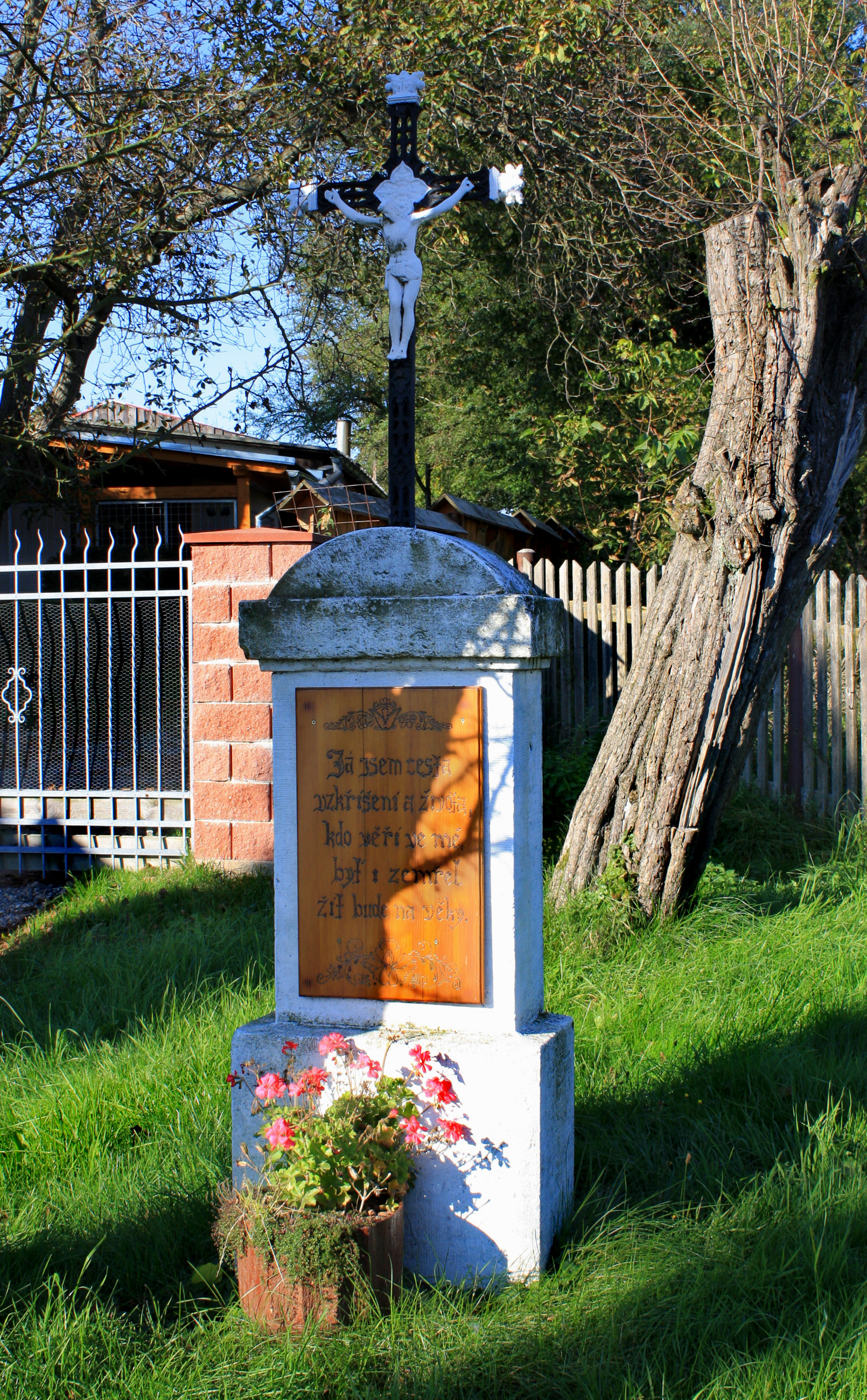 Crucifix in Vysoká, part of Chrastava, Czech Republic